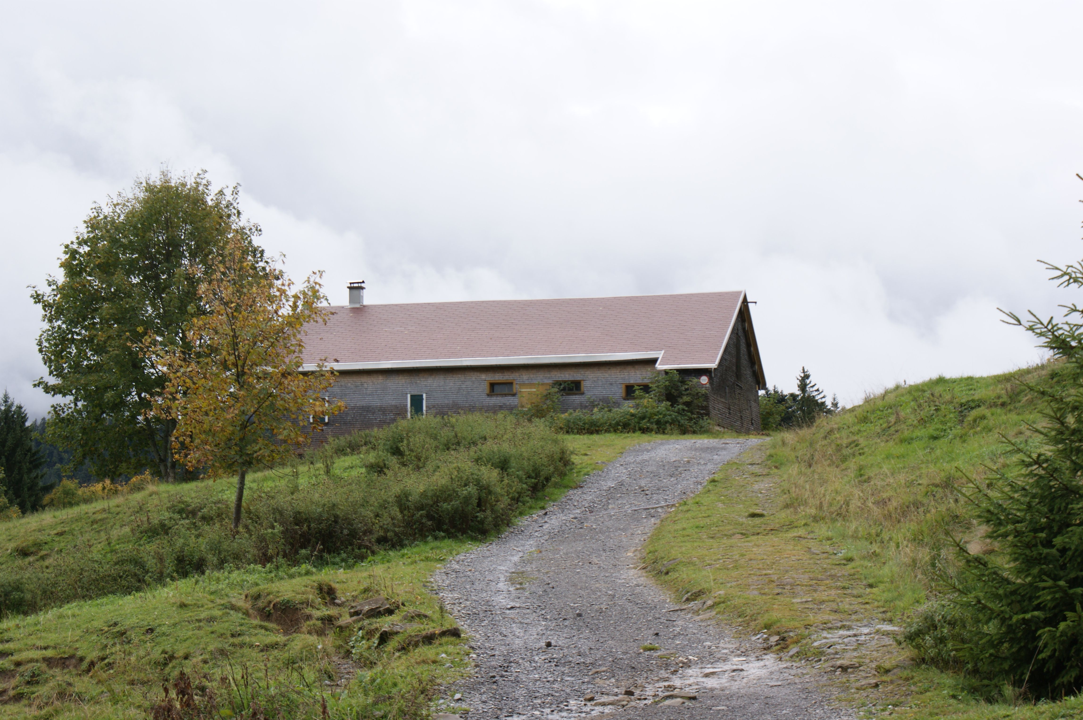 Alp "Hochaelpele" (also: "Hochaelpelealpe" or "Haemmerles Aelpele") in the municipality Schwarzenberg in Vorarlberg, Austria at about 1250 masl.